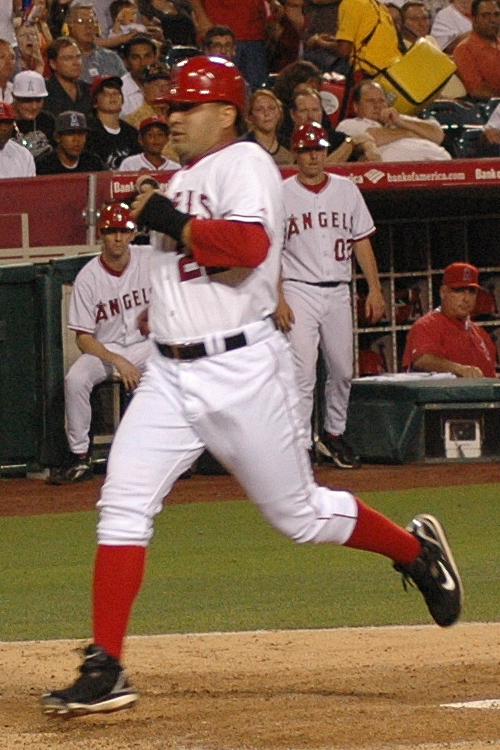 Kendry Morales